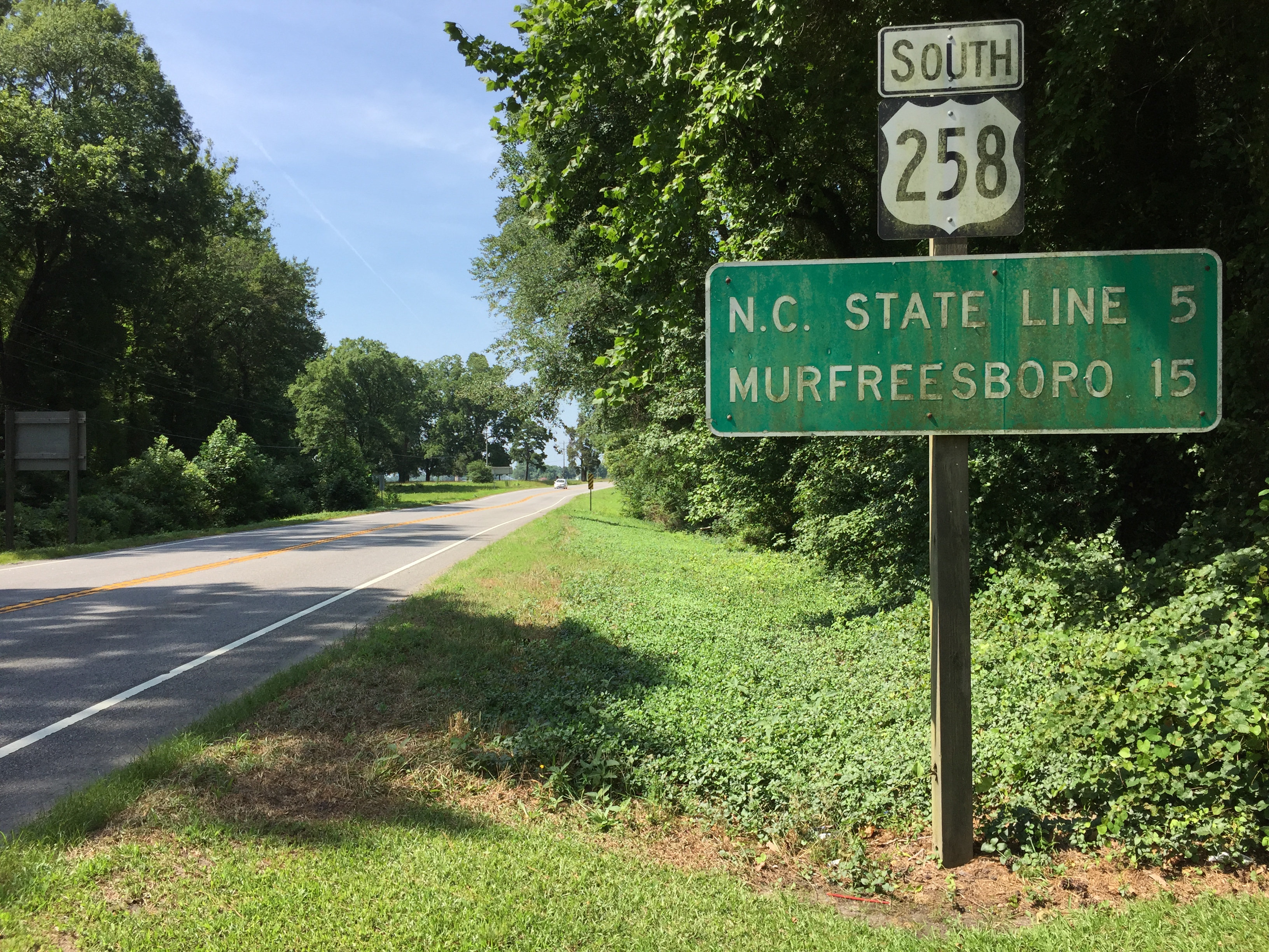 View south along U.S. Route 258 (Smiths Ferry Road) at Virginia State Route 189 (Quay Road) in southeastern Southampton County, Virginia